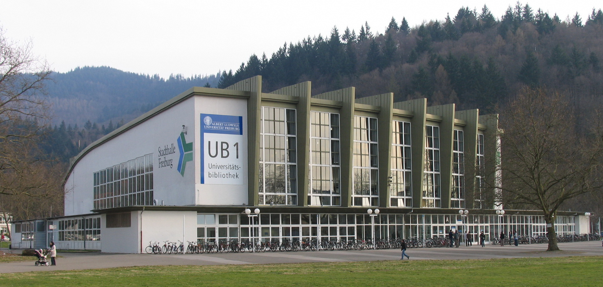 former civic centre of Freiburg which currently accommodates the library of the university.